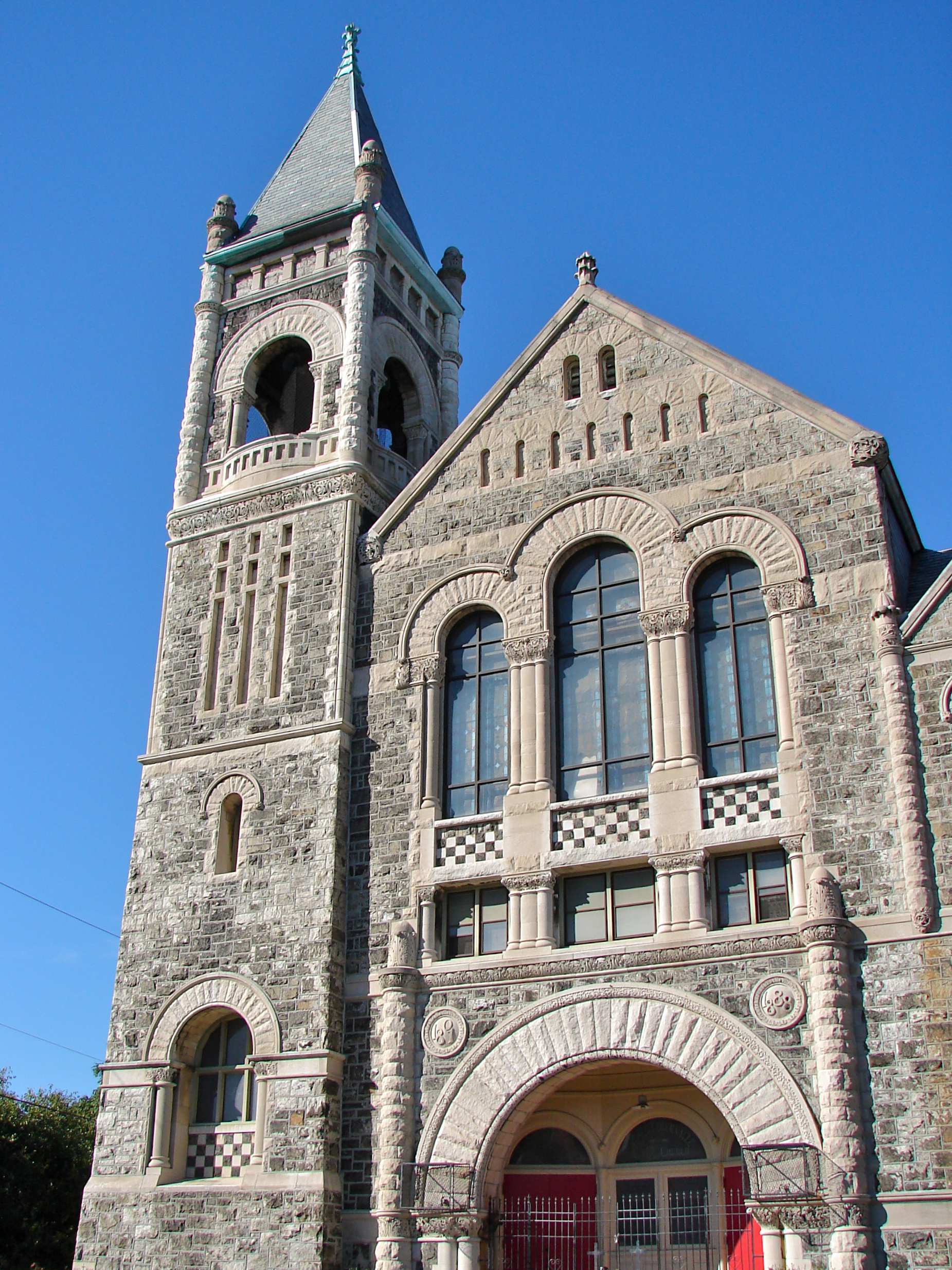 Union Methodist Episcopal Church in Philadelphia on the NRHP since October 15, 1980. At 2019 West Diamond St. in the North Central neighborhood of North Philly.